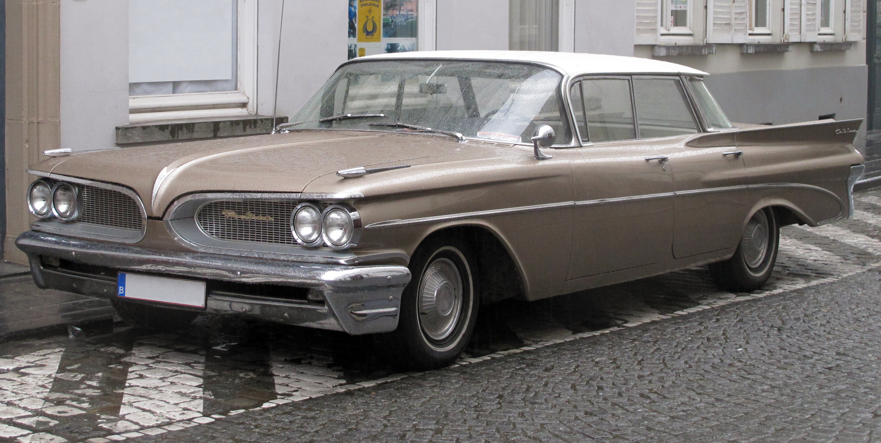 1959 Pontiac Catalina Vista hardtop sedan (model 2139), in Brugges, Belgium